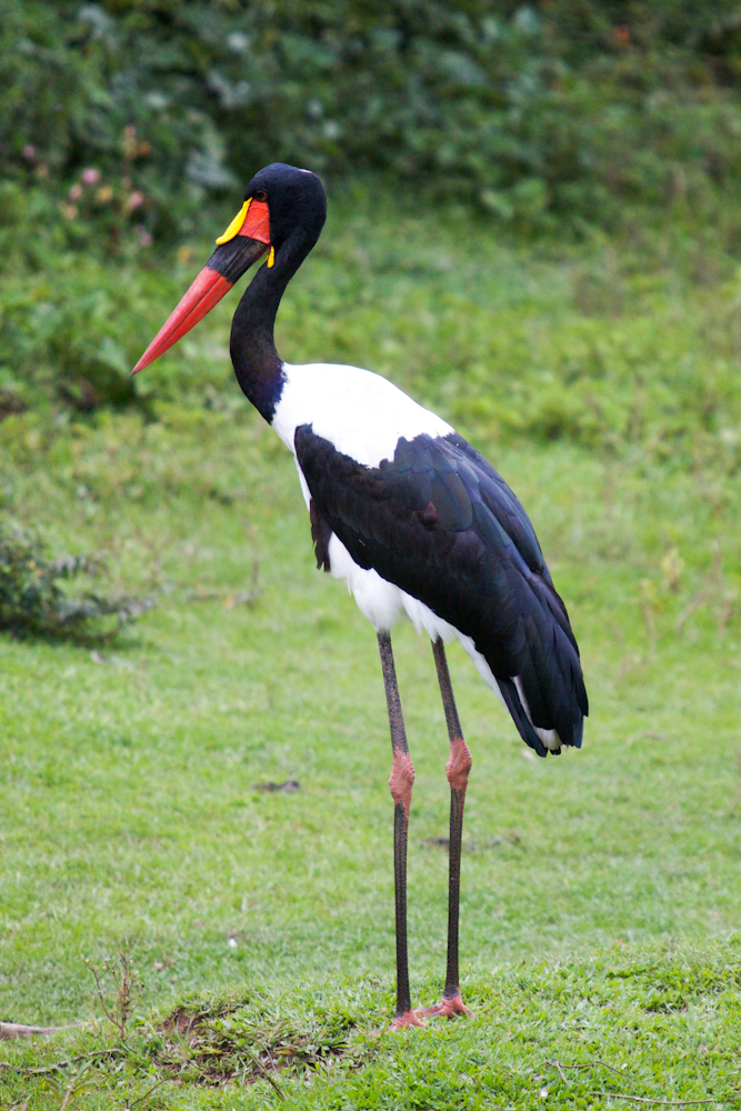 A Saddle-billed Stork in captivity.